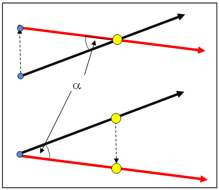 drawing of parallax